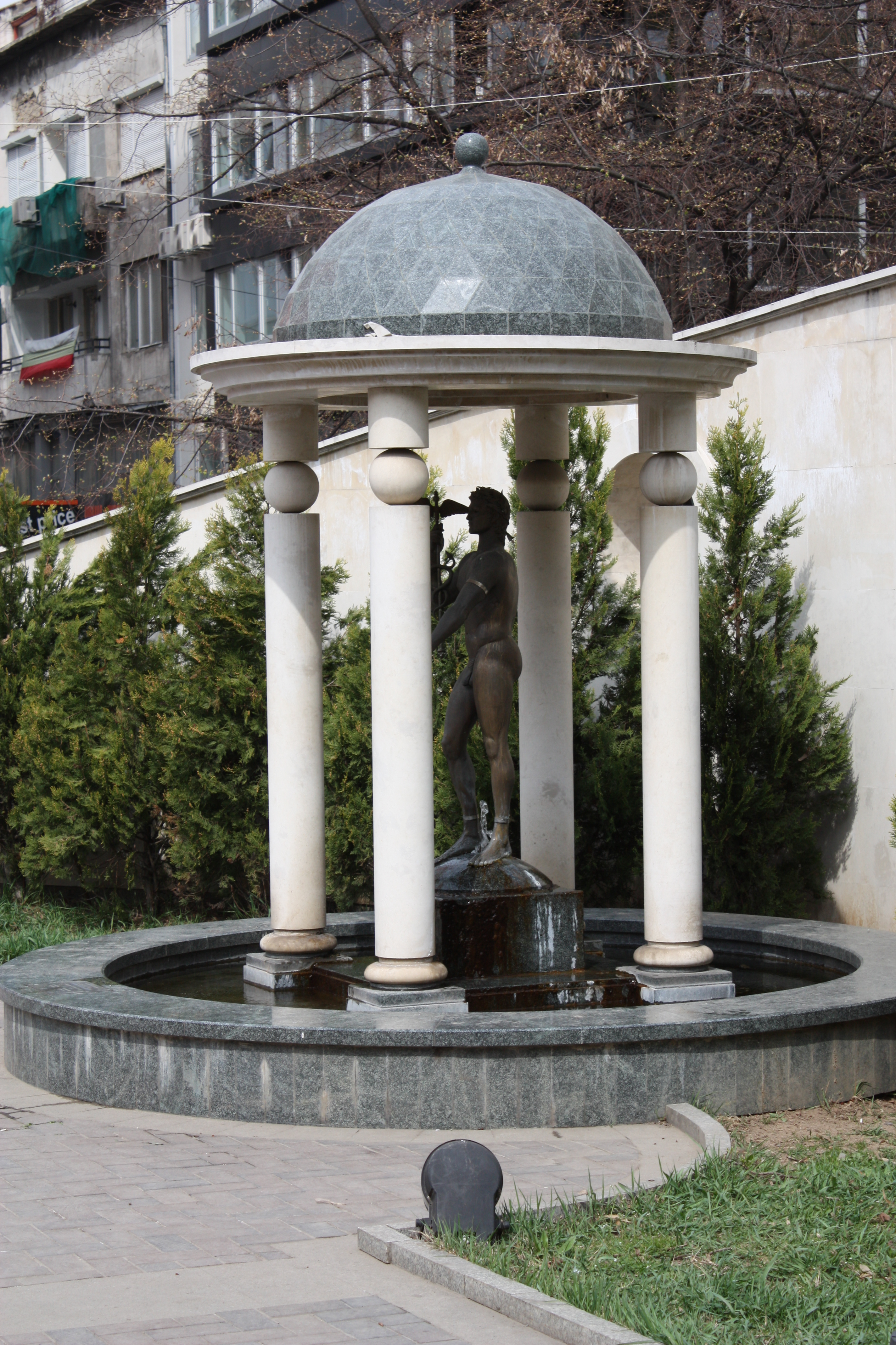 Hot mineral water taps at the side of centalna mineralna banja Sofia, Sofia Public Mineral Baths, Bulgaria, old people get mineral water from there, because it is very healthy for them (they think at least); the Apollon statue, it disappeared till 2012 - see File:Zentralbad Sofia Oct 2012 PD IMG 1684.jpg